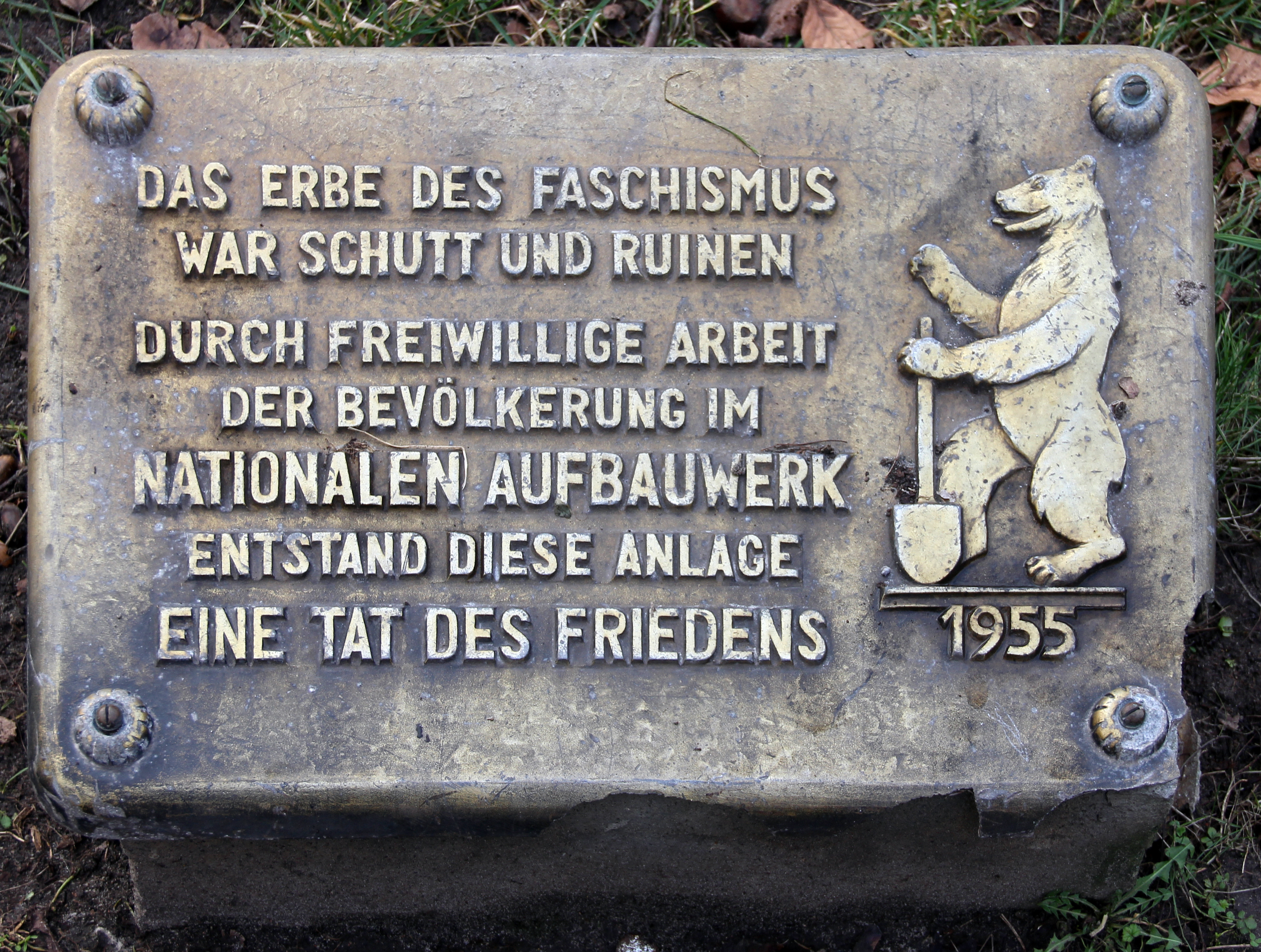 Memorial plaque, Nationales Aufbauwerk, Große Seestraße 11, Berlin-Weißensee, Germany